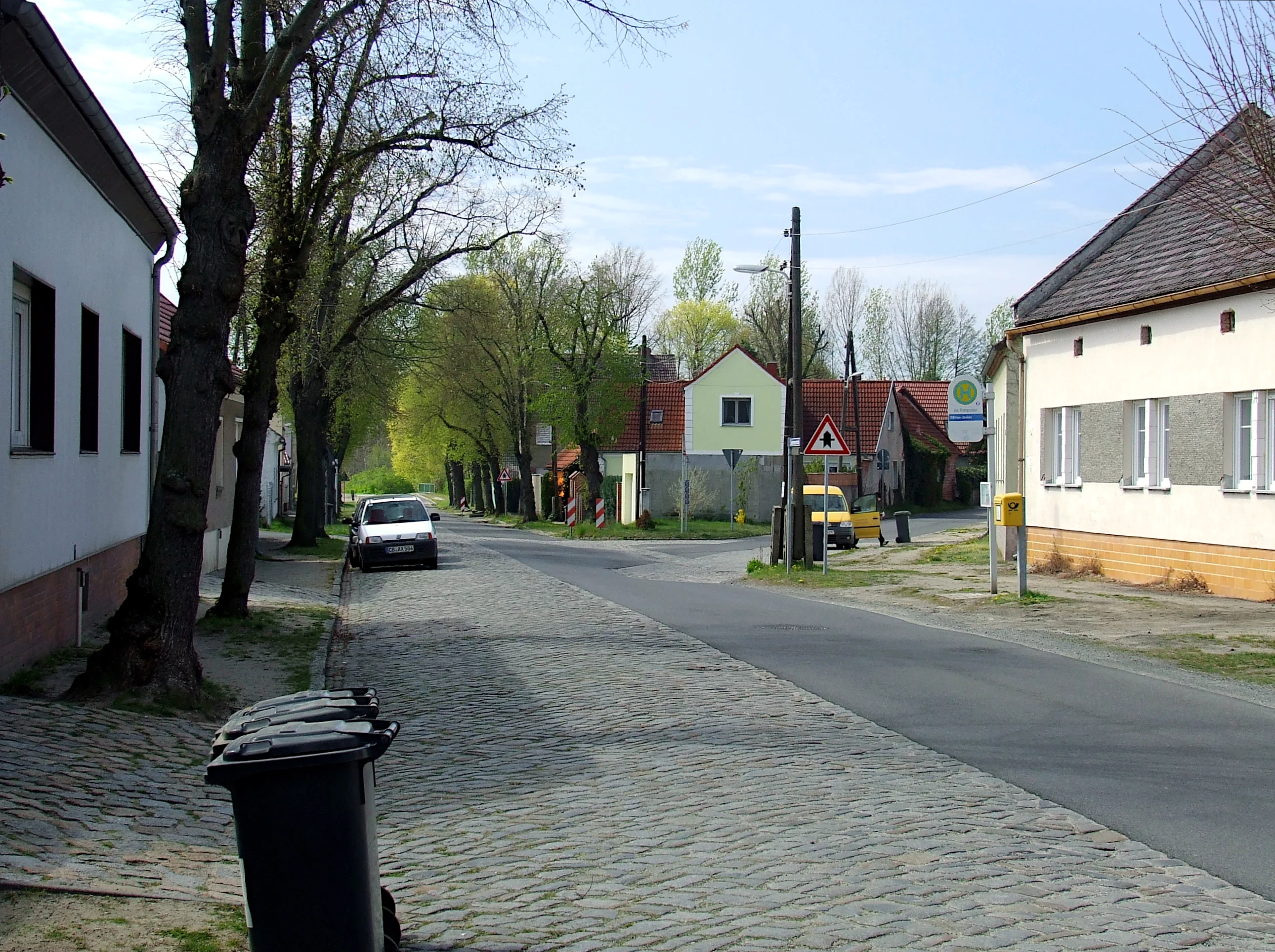 Klein Ströbitz (northern part) in Cottbus-Ströbitz, Sudermannstraße and bus stop "Cottbus, Am Priorgraben".